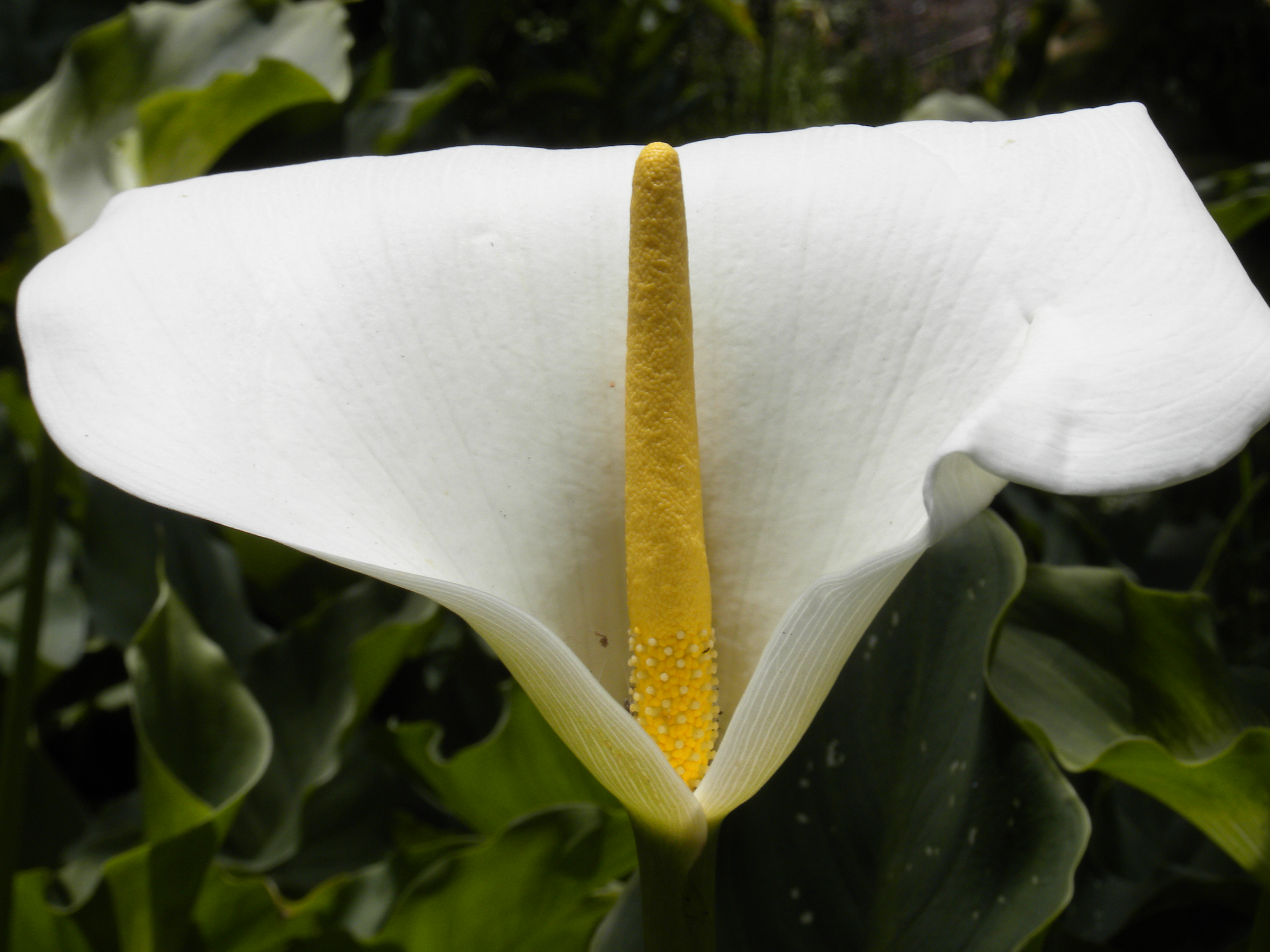 white and yellow flower